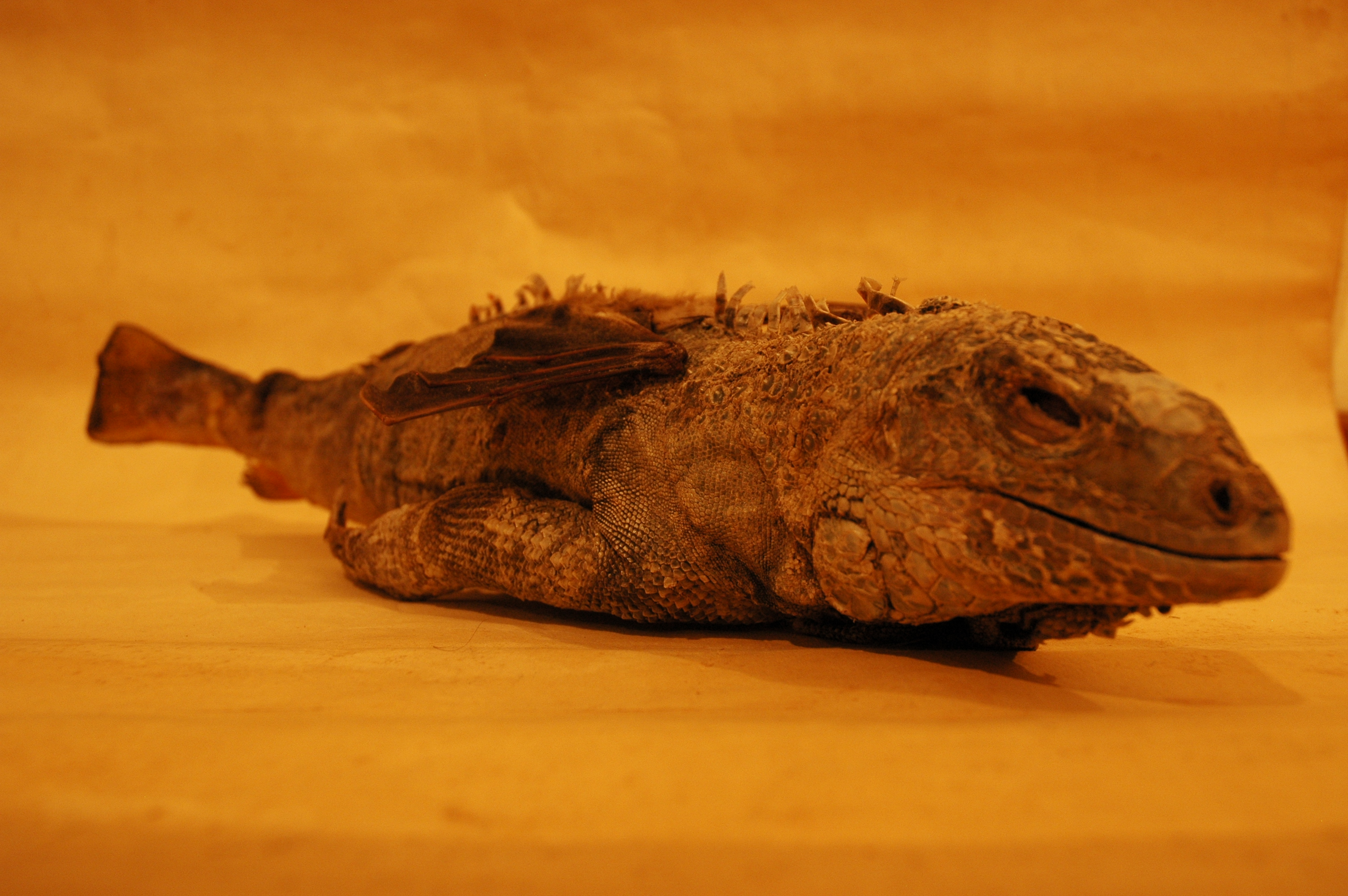 Project Brh+ by Henrique Serro, 2008